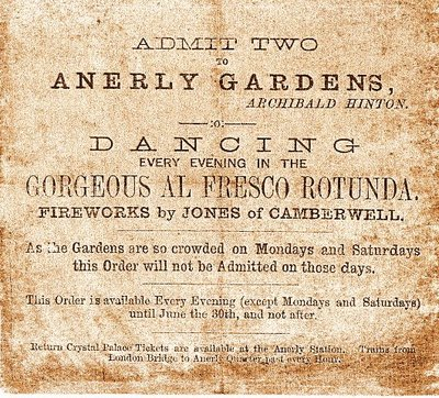 Admission Ticket to Anerley Gardens approx 1855